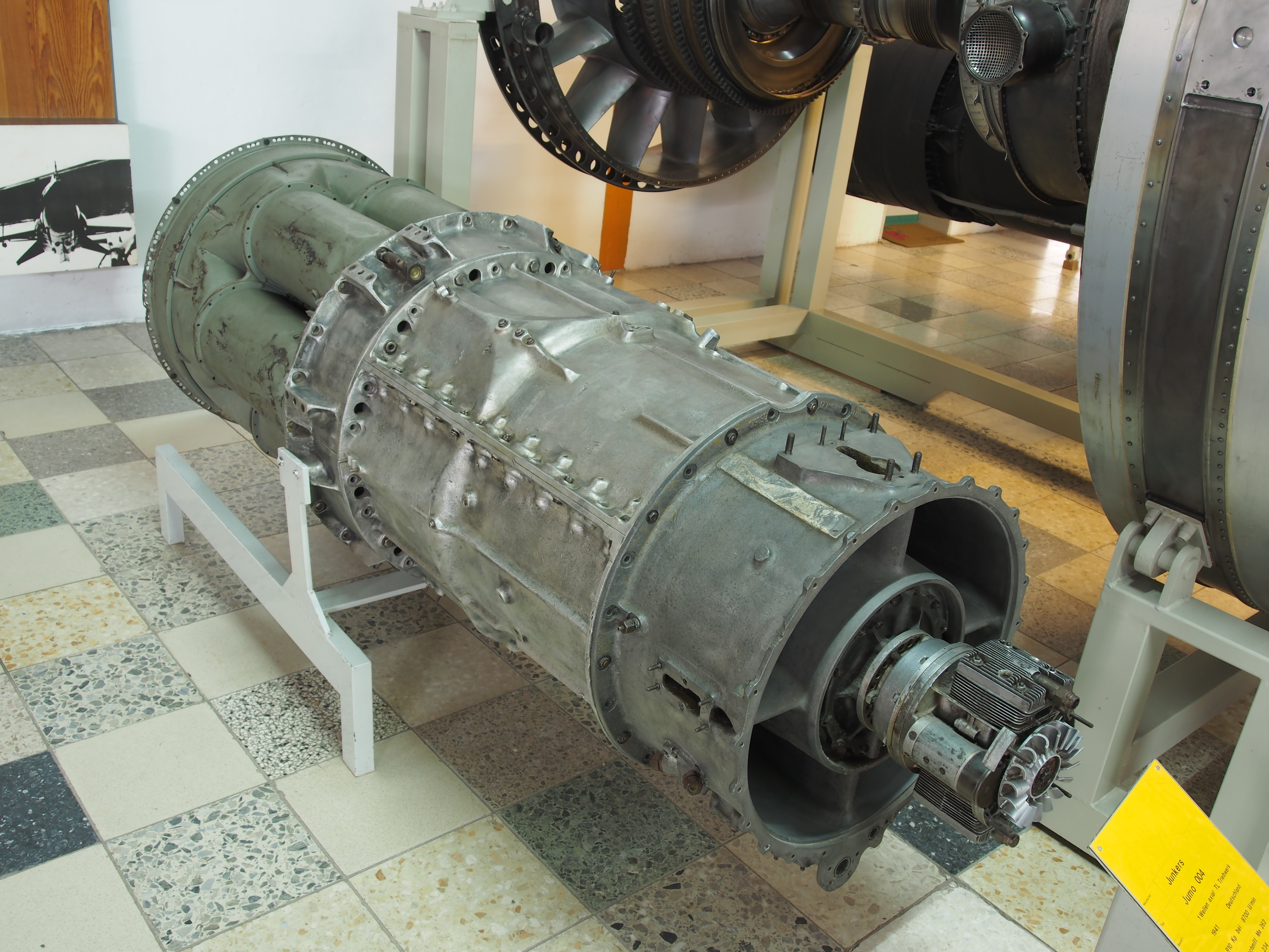 Photographed at Flugausstellung L.+P. Junior, Hermeskeil, Germany.